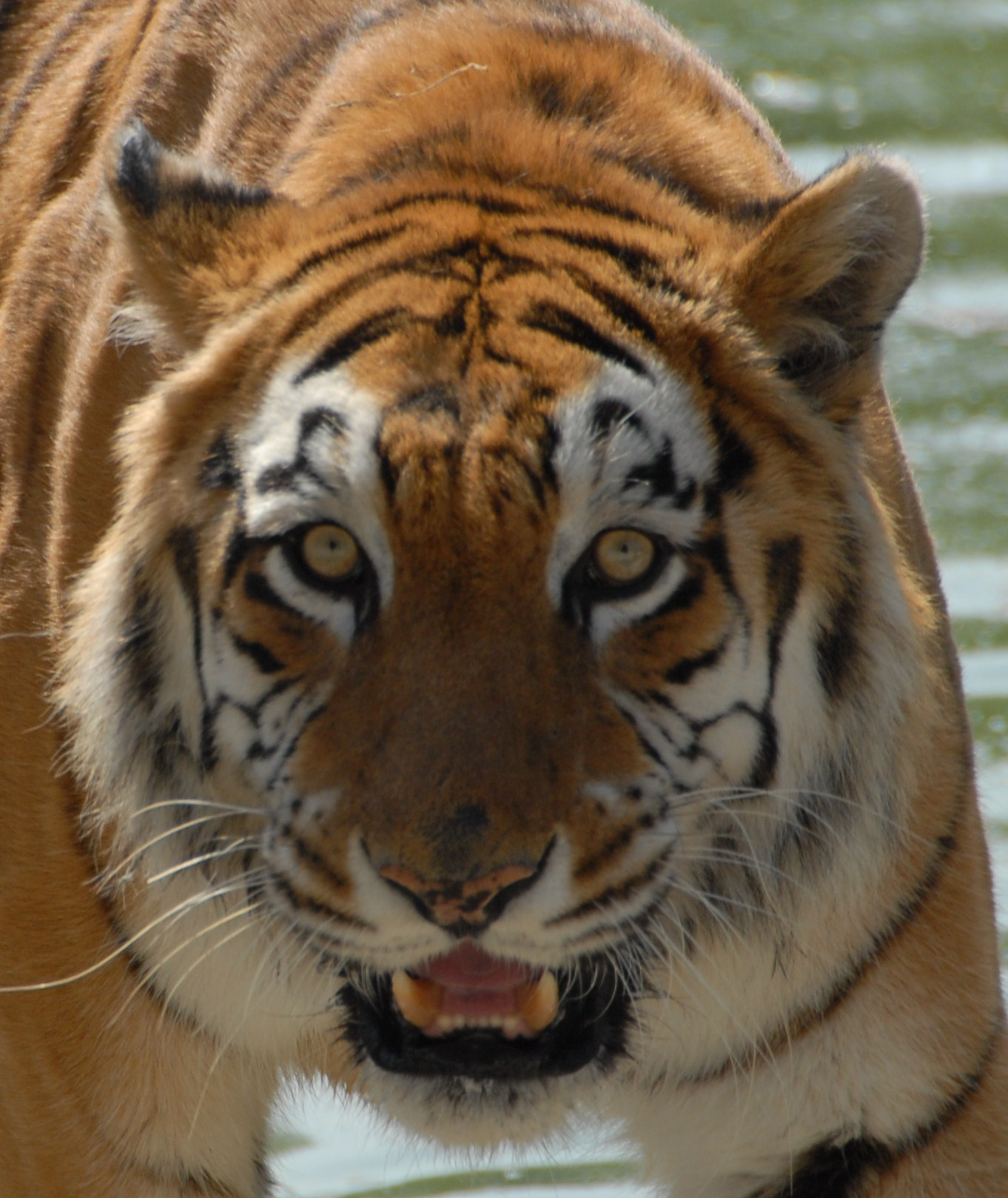 Tiger In Guadalajara Jal. Mex. Zoo.